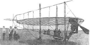 A photograph of "Spheroplane 2" (Сфероплан №2), designed and built by Anatoly Georgievich Ufimtsev (Анатолий Георгиевич Уфимцев), circa 1910